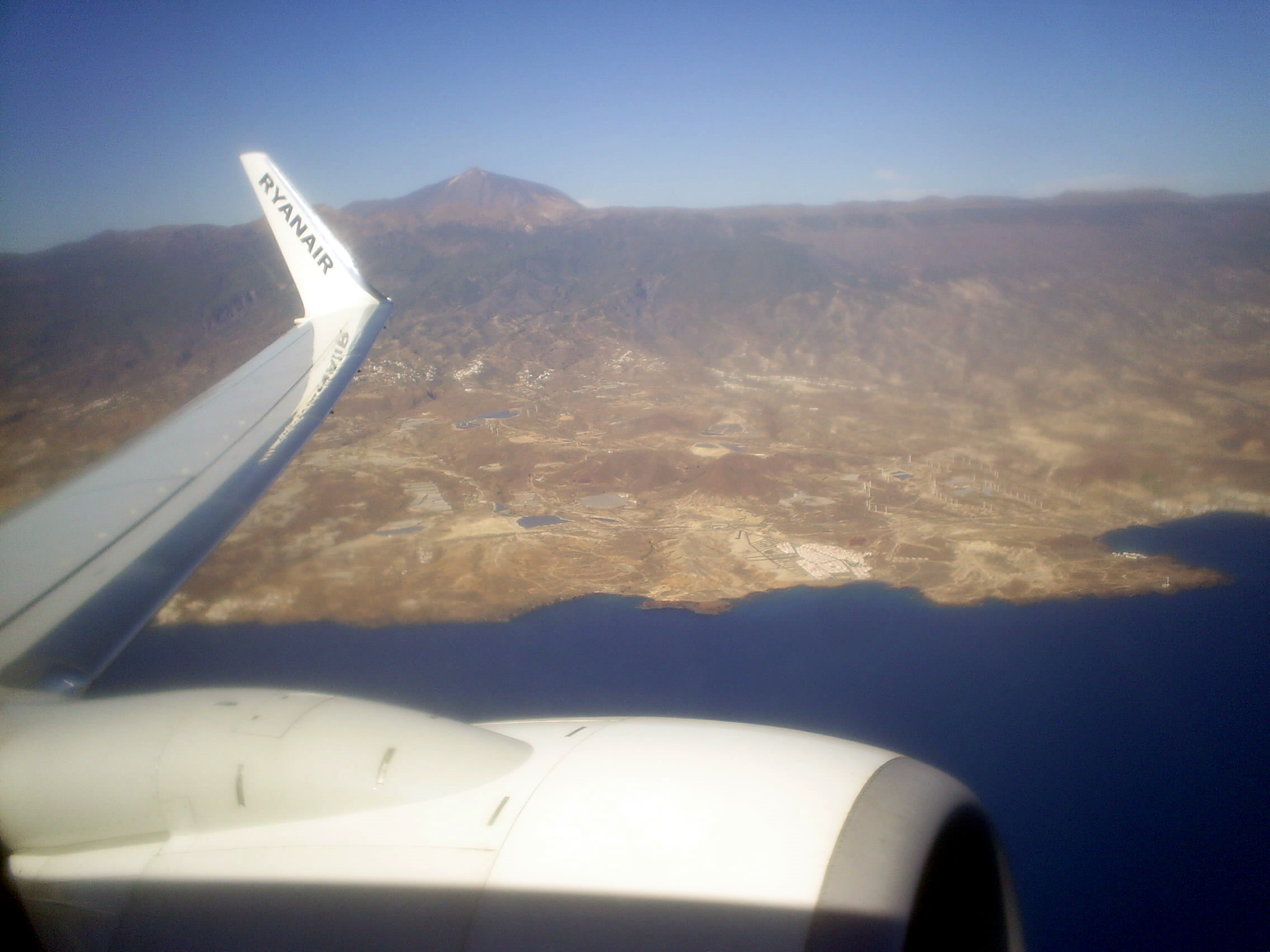 A Ryanair aircraft winglet